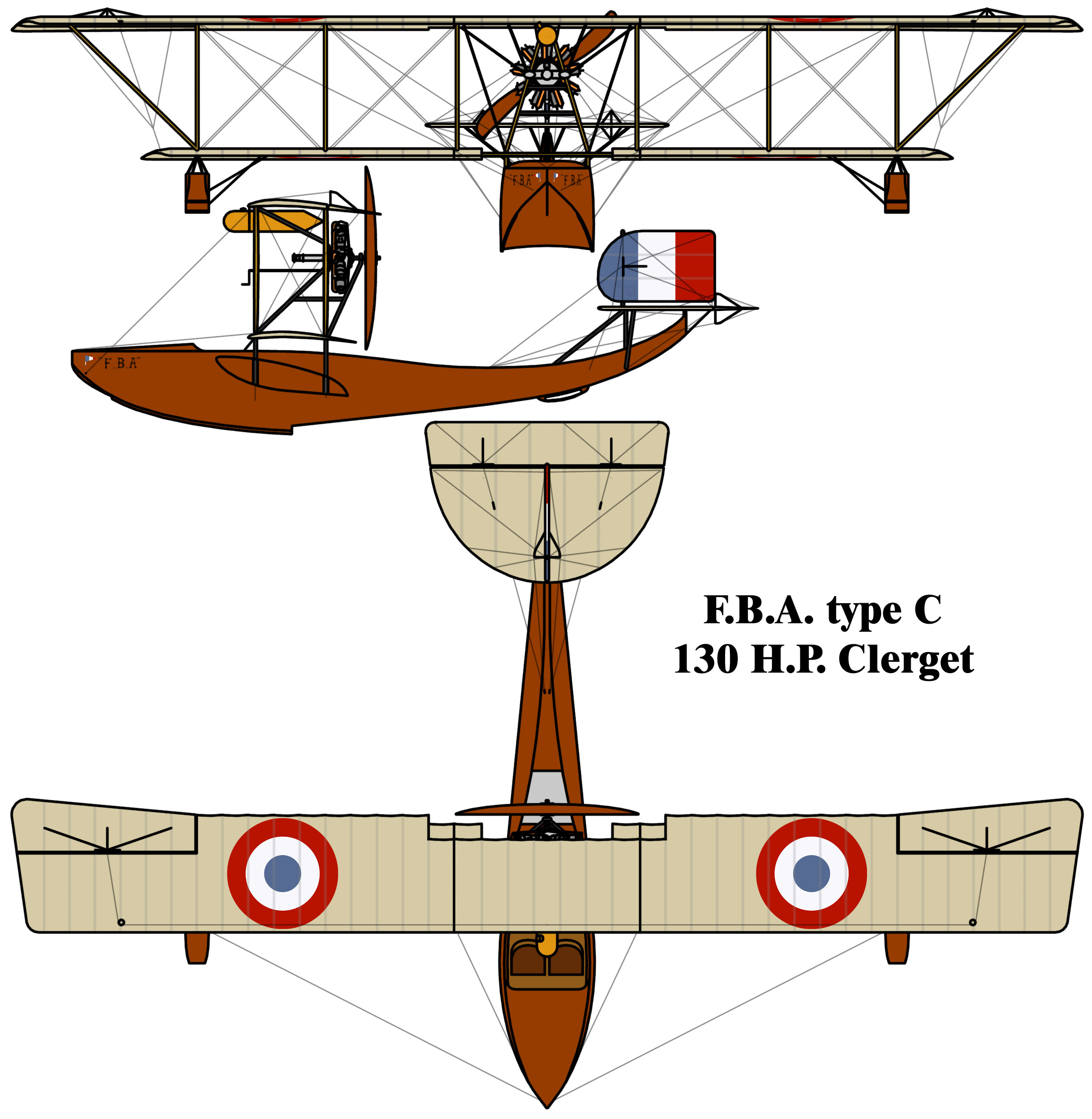 Franco British Aviation (FBA) Type C drawing